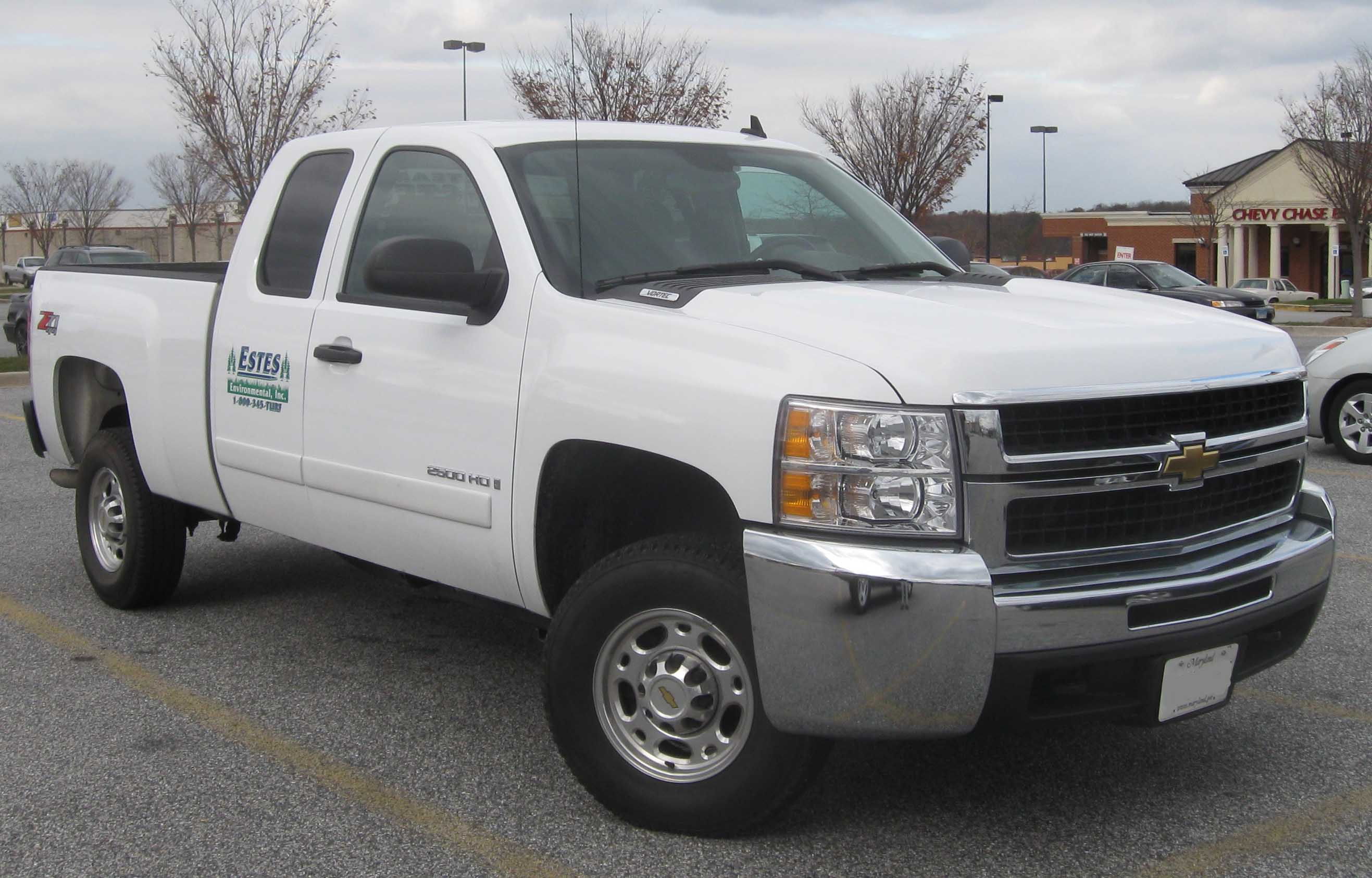 2007-2009 Chevrolet Silverado photographed in Laurel, Maryland, USA.